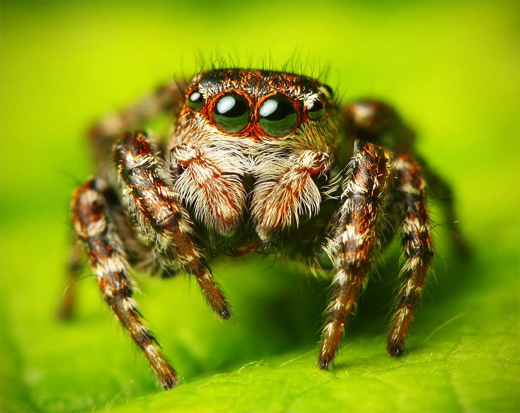 I captured these images yesterday. I found this beautiful jumping spider in very wet swamp. Finally I tested my new flash setup with diffuser. I took these photos with CanonEOS40D photo camera + extension tubes + CanonEF100mmMacroUSM lens + Kenko close up filter. I was working a lot, but unfortunately, my CanonEF100mmMacroUSM lens just died... ;( So I' m very unhappy now... I don't know when next time I will add more photos... ;( Please have a view of full size... Thanks :)